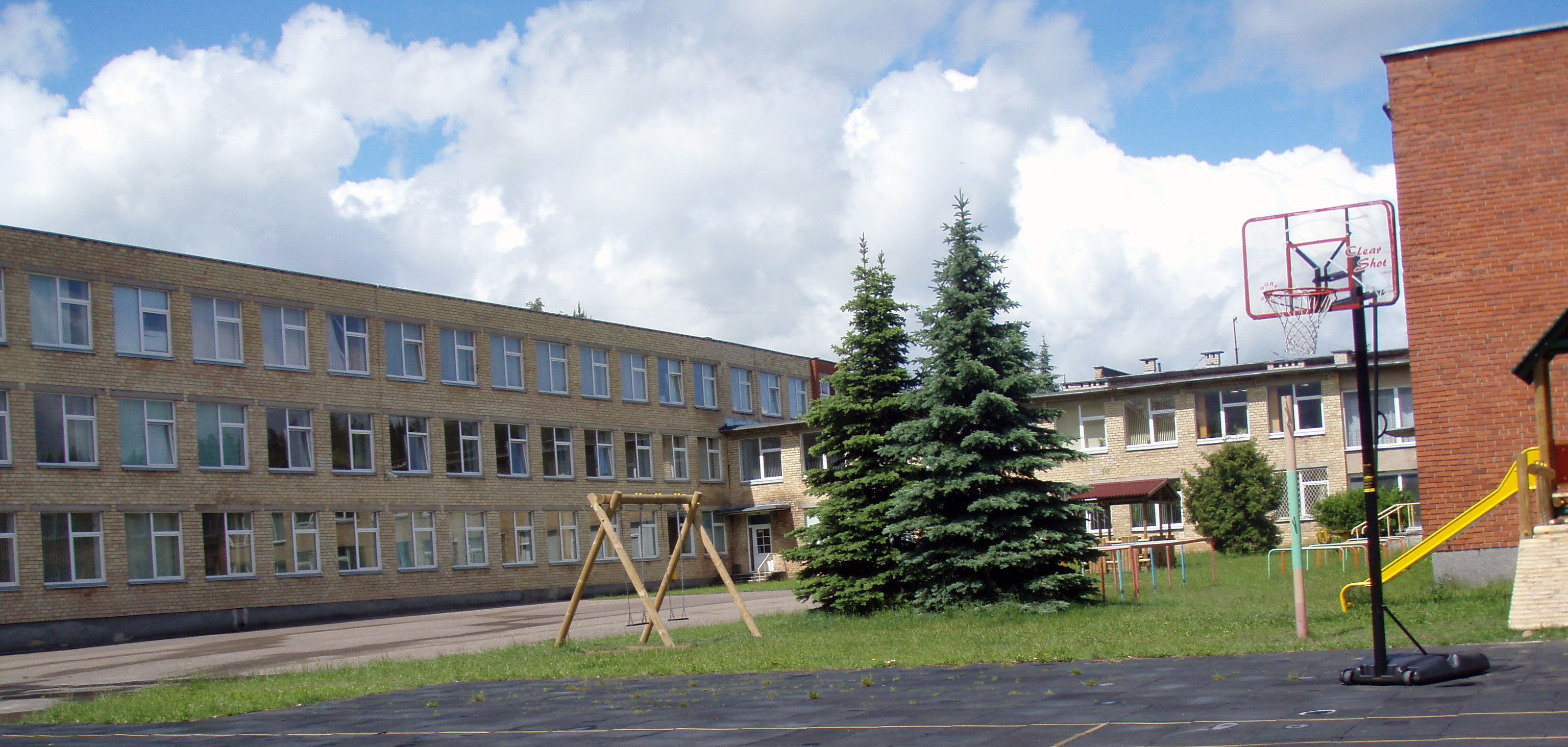 Education centre for the blind and people with weak vision, Vilnius, Lithuania